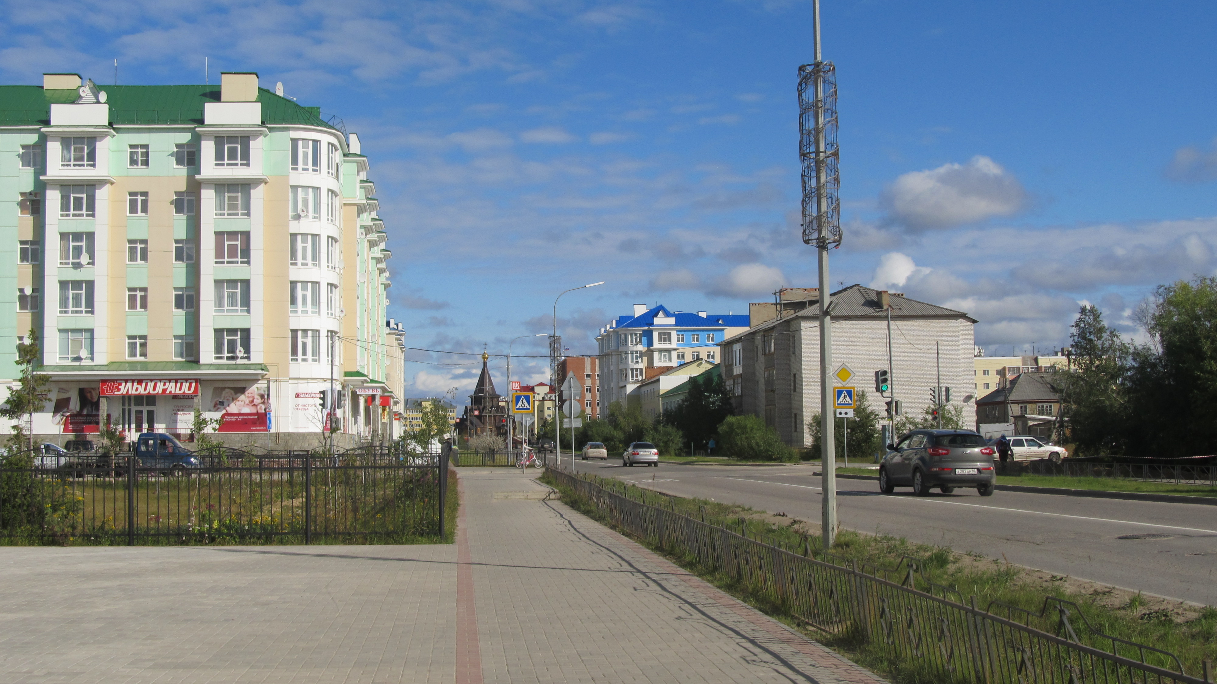 Narjan-mar, Russia, 2014